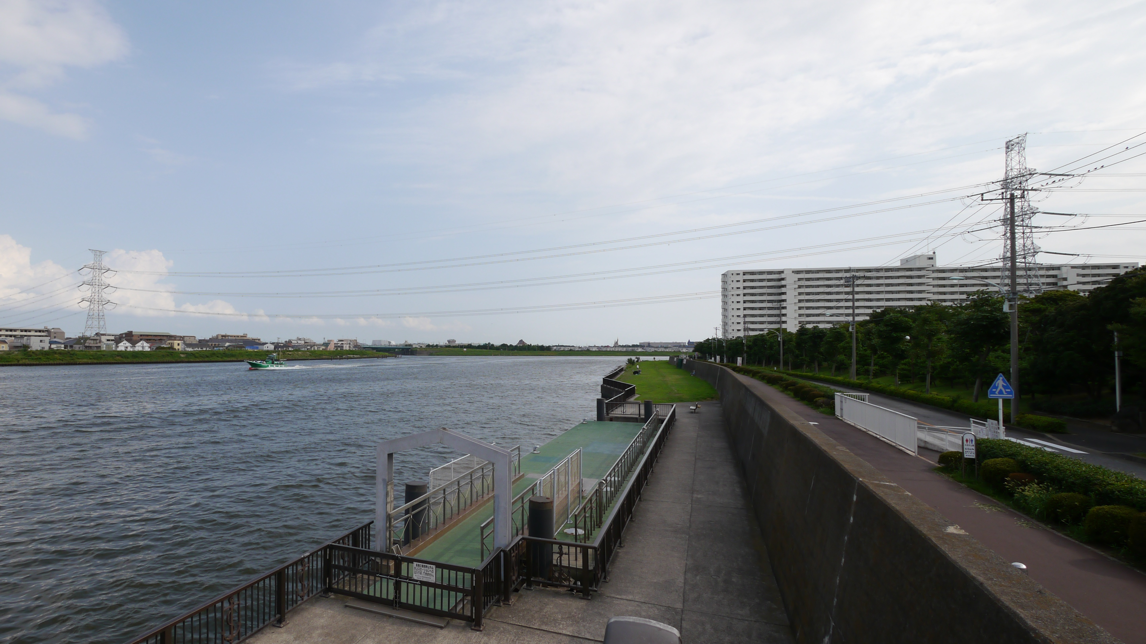 Koto-line (275kV HV-AC) on Kyū Edo-River, Koto, Tokyo, Japan